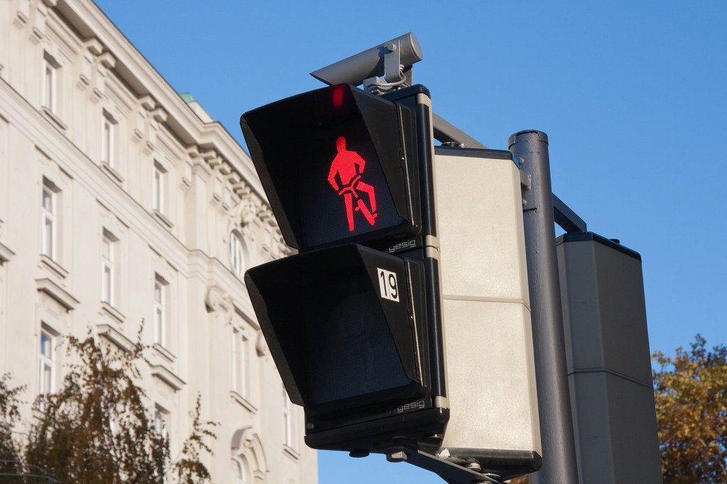 Bicycle traffic lights in Vienna, Austria